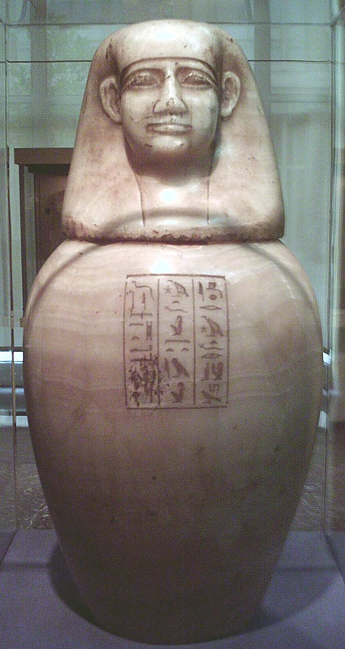 A canopic jar of a Mnewer bull from Ancient Egypt's 26th dynasty.